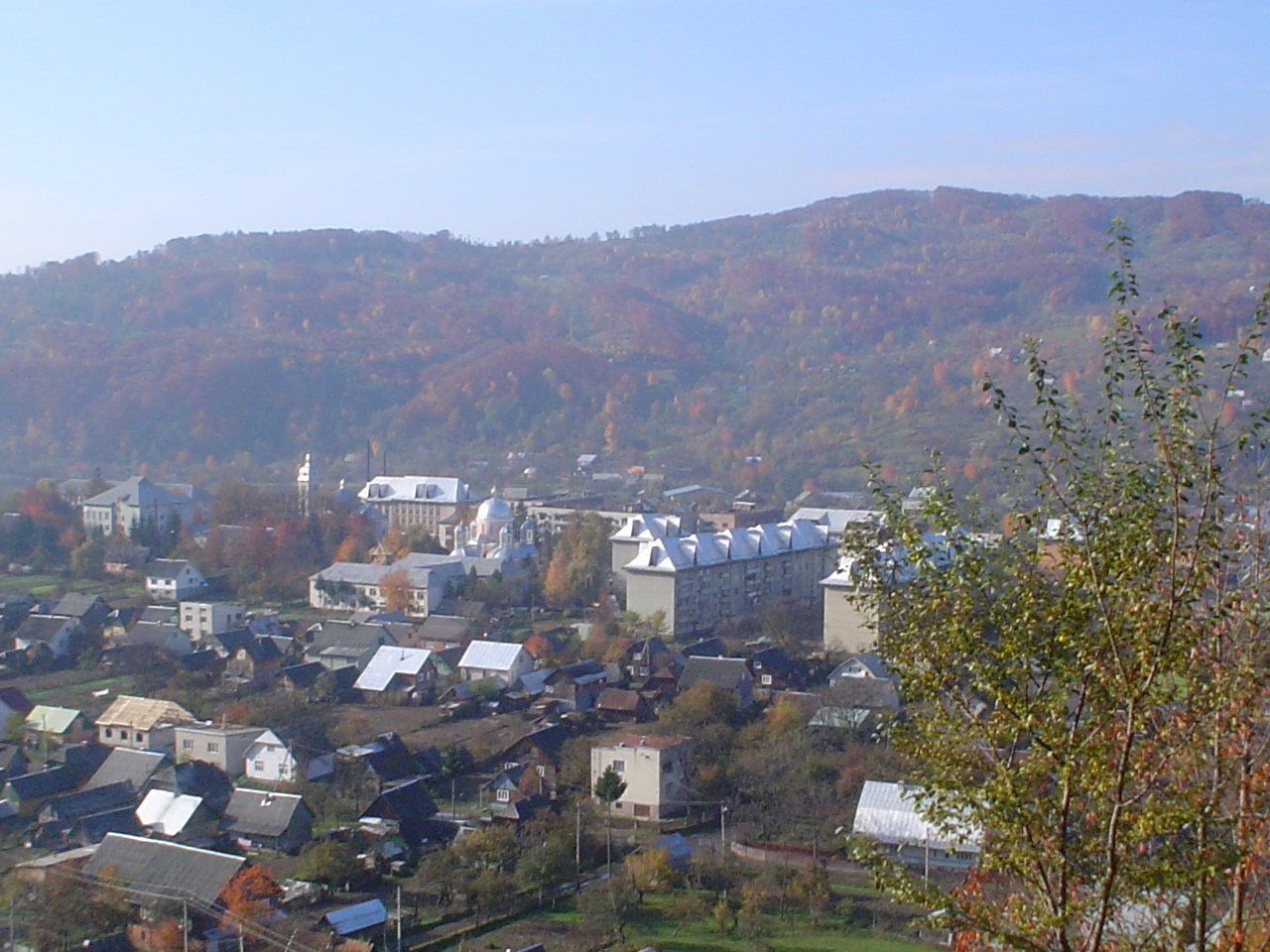 Village of Dubove, Ukraine, Zakarpattya.